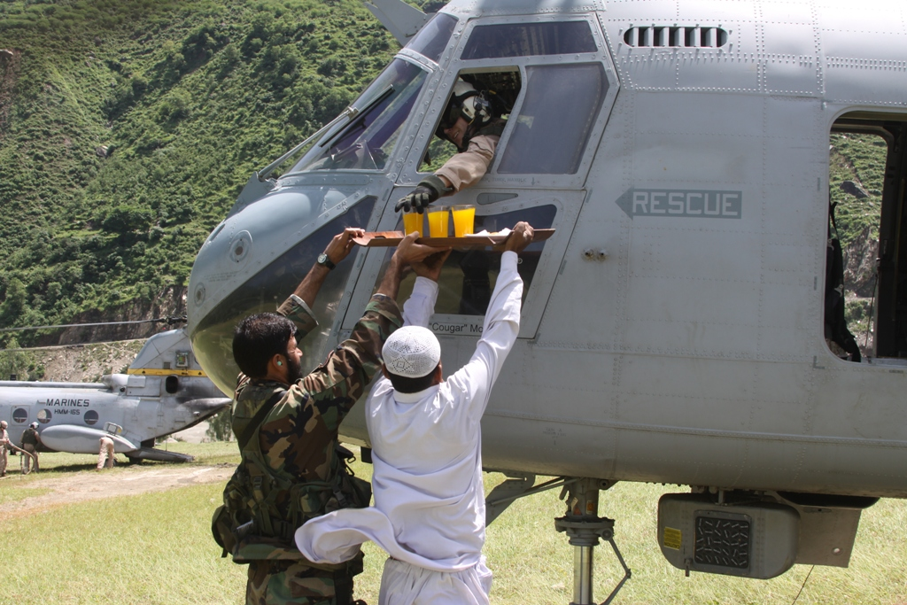 KHYBER-PAKHTUNKHWA PROVINCE, PAKISTAN (Aug. 27, 2010) A Pakistani man offers fruit juice and cookies to Marines assigned to the White Knights of Marine Medium Helicopter Squadron (HMM 165) (Reinforced) during humanitarian relief efforts in Khyber-Pakhtunkhwa Province, Pakistan. (U.S. Navy photo/Released)